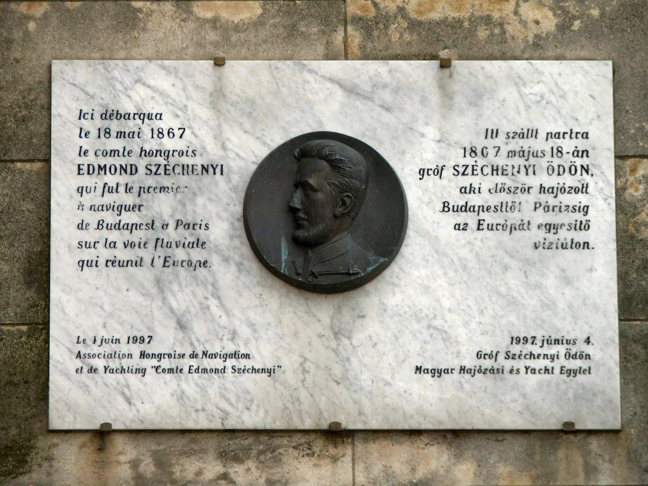 Location: Quai Branly, Paris